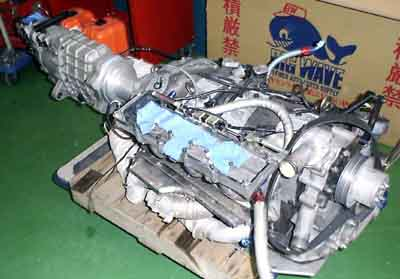 20B ROTARY ENGINE,peripheral port OKURA ROTARY RACING JAPAN GT300